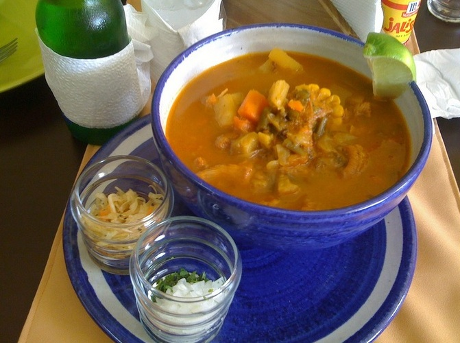 Sopa de mondongo